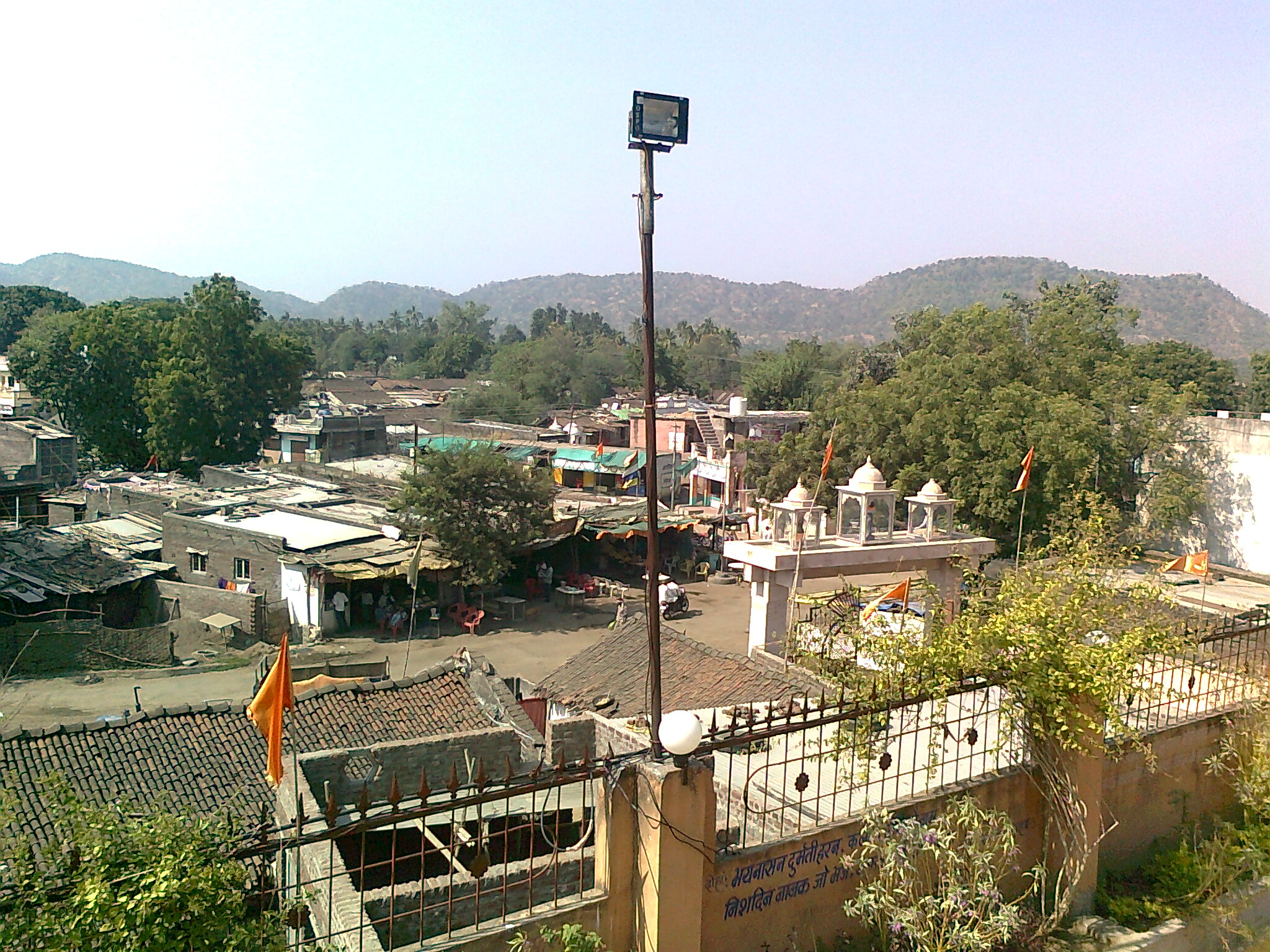 View of Pal village (Jalgaon district, India) with Satpura mountains in background taken from Shri Krishna Mandir.